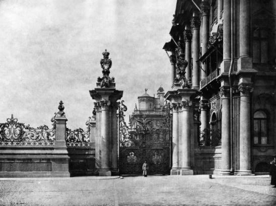 Fence of Winter Palace garden in St Petersburg (Russia). 19th-century photo (1890—1900)